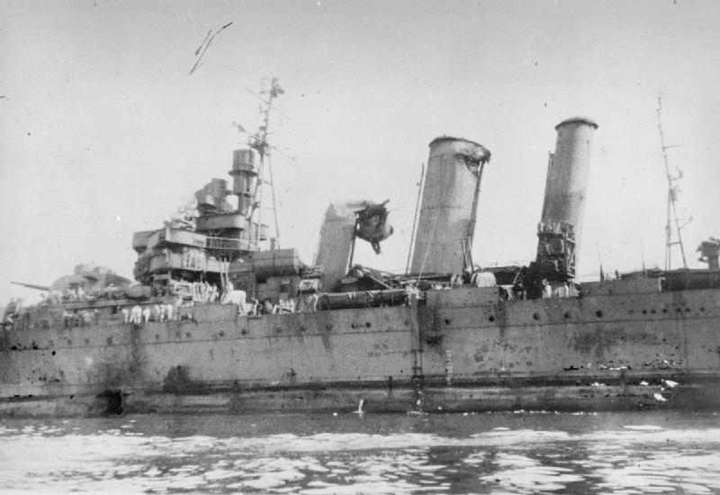 View of the port side of HMAS Australia showing the damage caused by Japanese Kamikaze attacks.